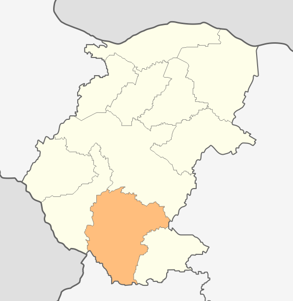 Map of Berkovitsa municipality, Montana Province